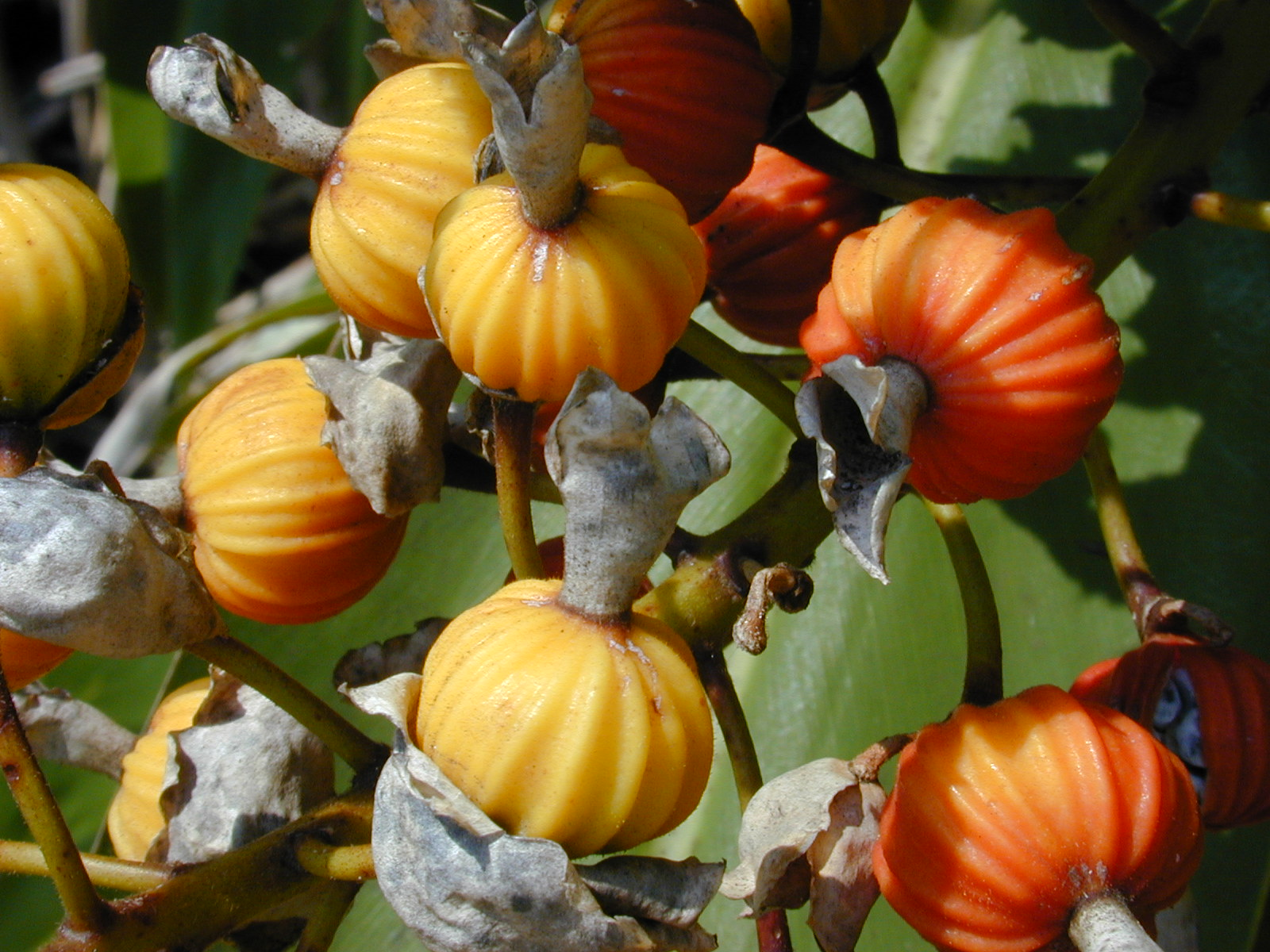 Alpinia zerumbet (ripe fruits). Location: Maui, Kihei